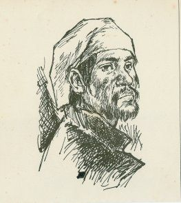 Drawing of Don Miguel Enríquez (c. 1674–1743)